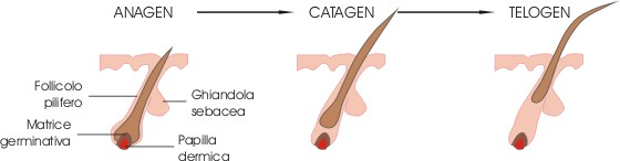 stages of growth of hairs anagen catagen telogen